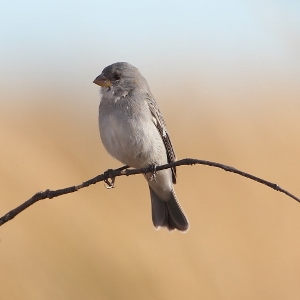 Plumbeous Seedeater at Chapada dos Veadeiros - GO - Brazil